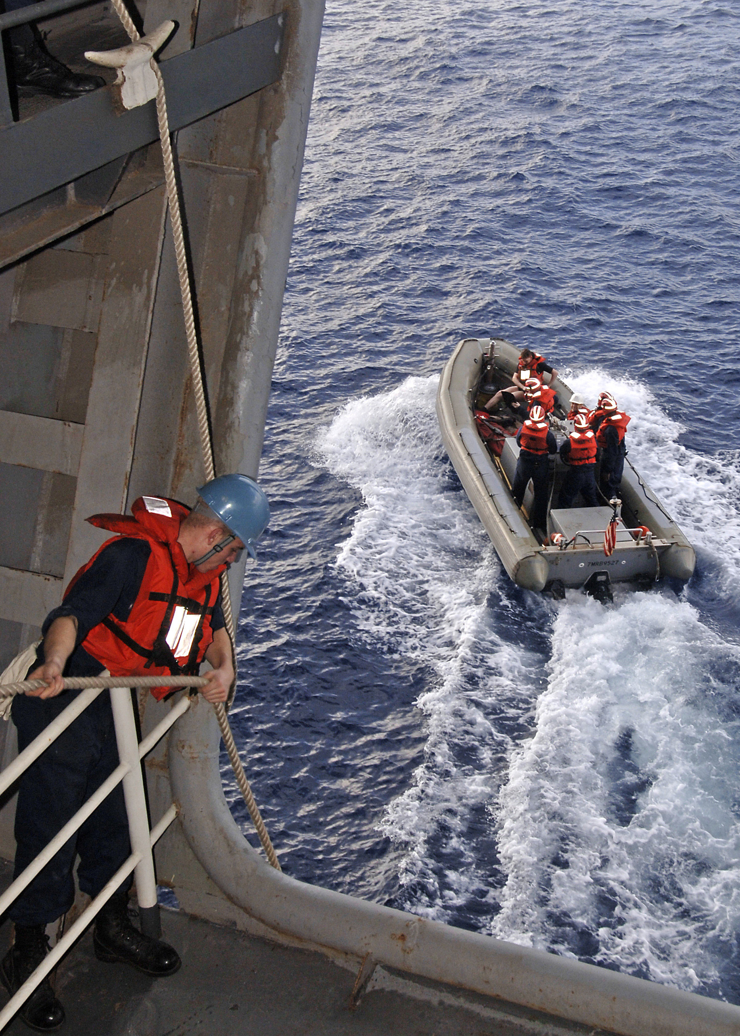 Atlantic Ocean (March 11, 2006) - Sailors pull up lines after lowering a Rigid Hull Inflatable Boat (RHIB) into the sea during a man overboard drill aboard the Nimitz-class aircraft carrier USS George Washington (CVN 73). Washington is conducting carrier qualifications and shipboard training in the Atlantic Ocean.